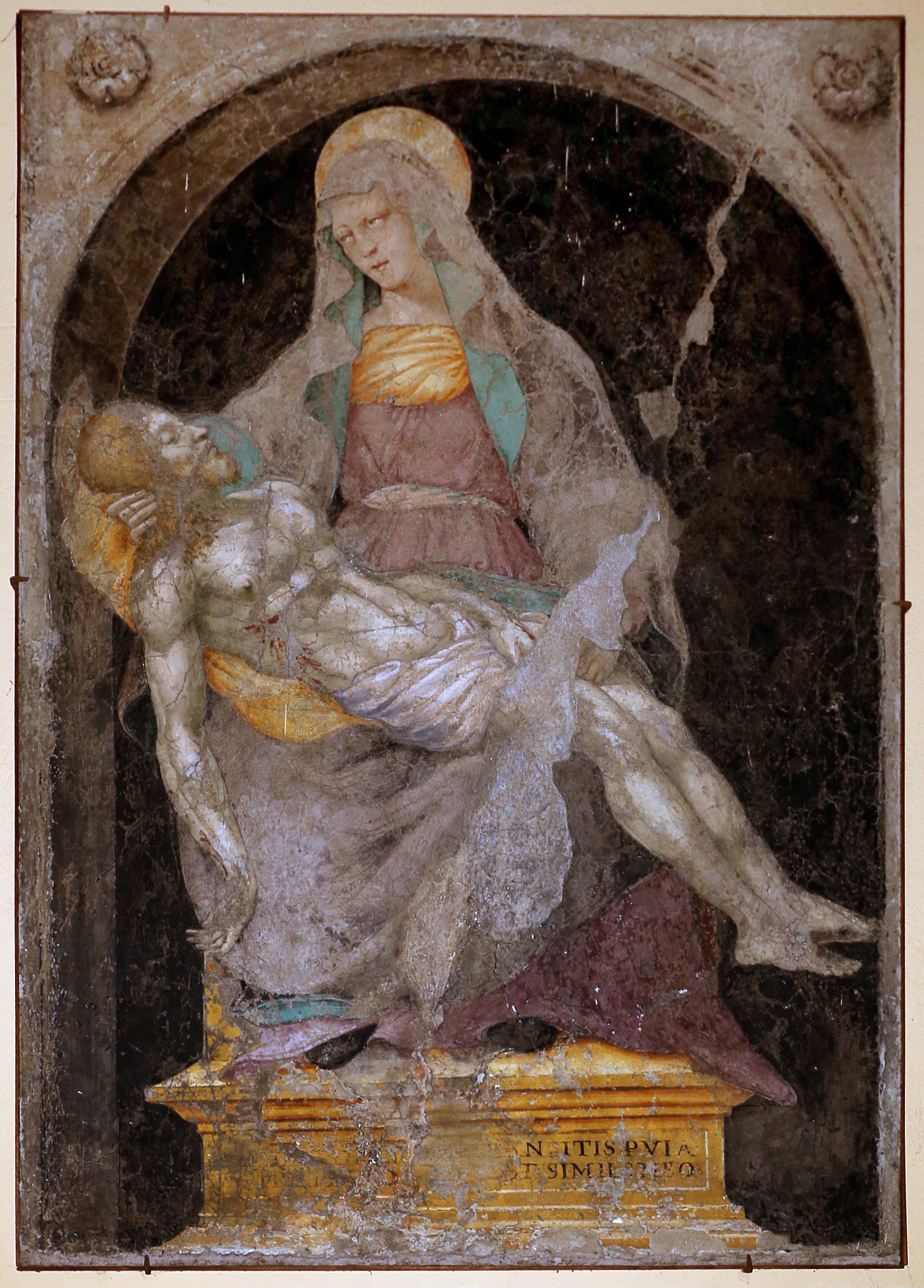 Santa Maria Maggiore (Cerveteri)